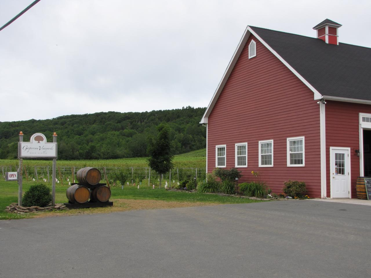 Exterior of the Nova Scotia winery Gaspereau in Canada